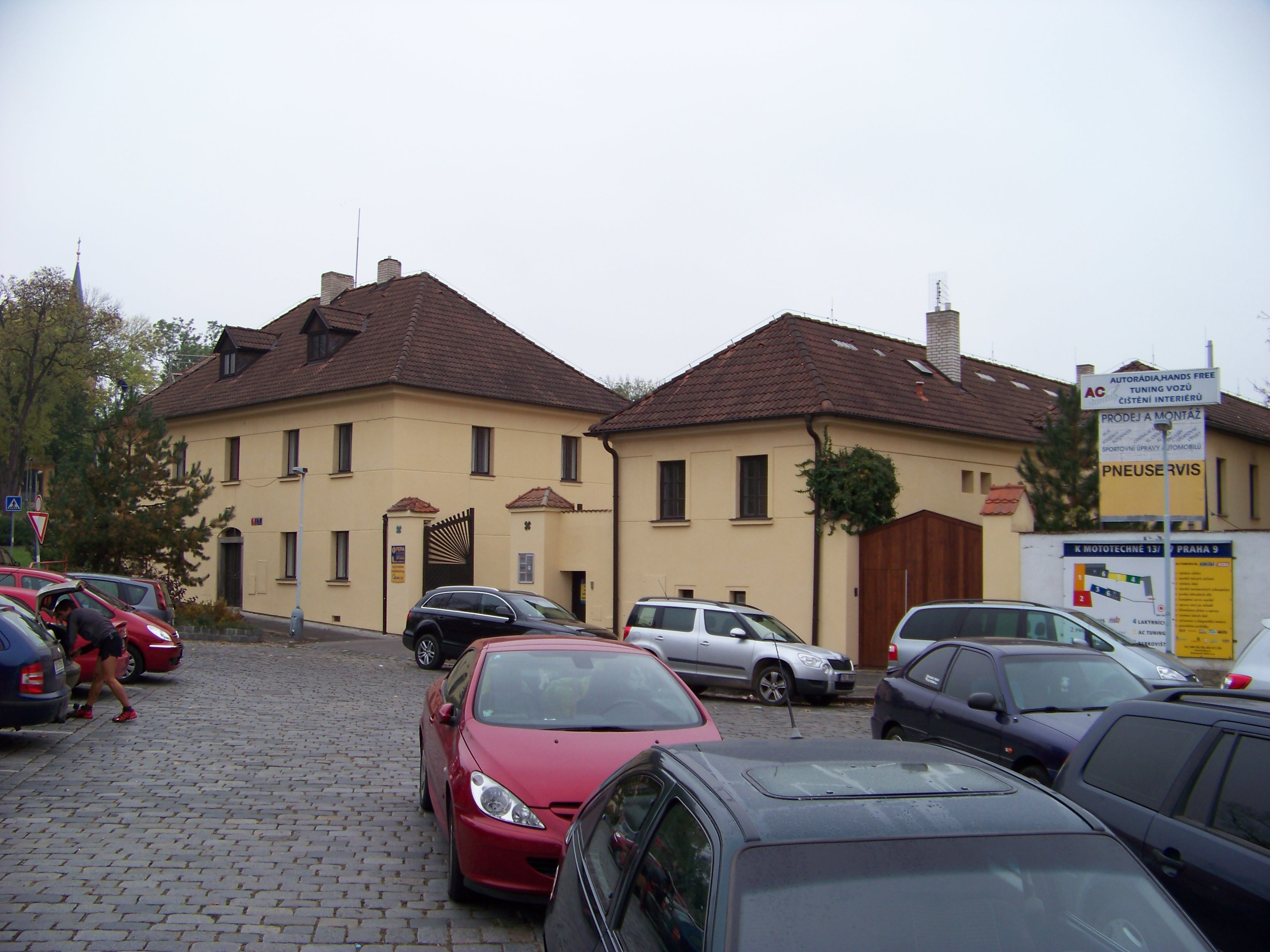 Prague-Hloubětín, the Czech Republic. Hloubětínská 16/11.